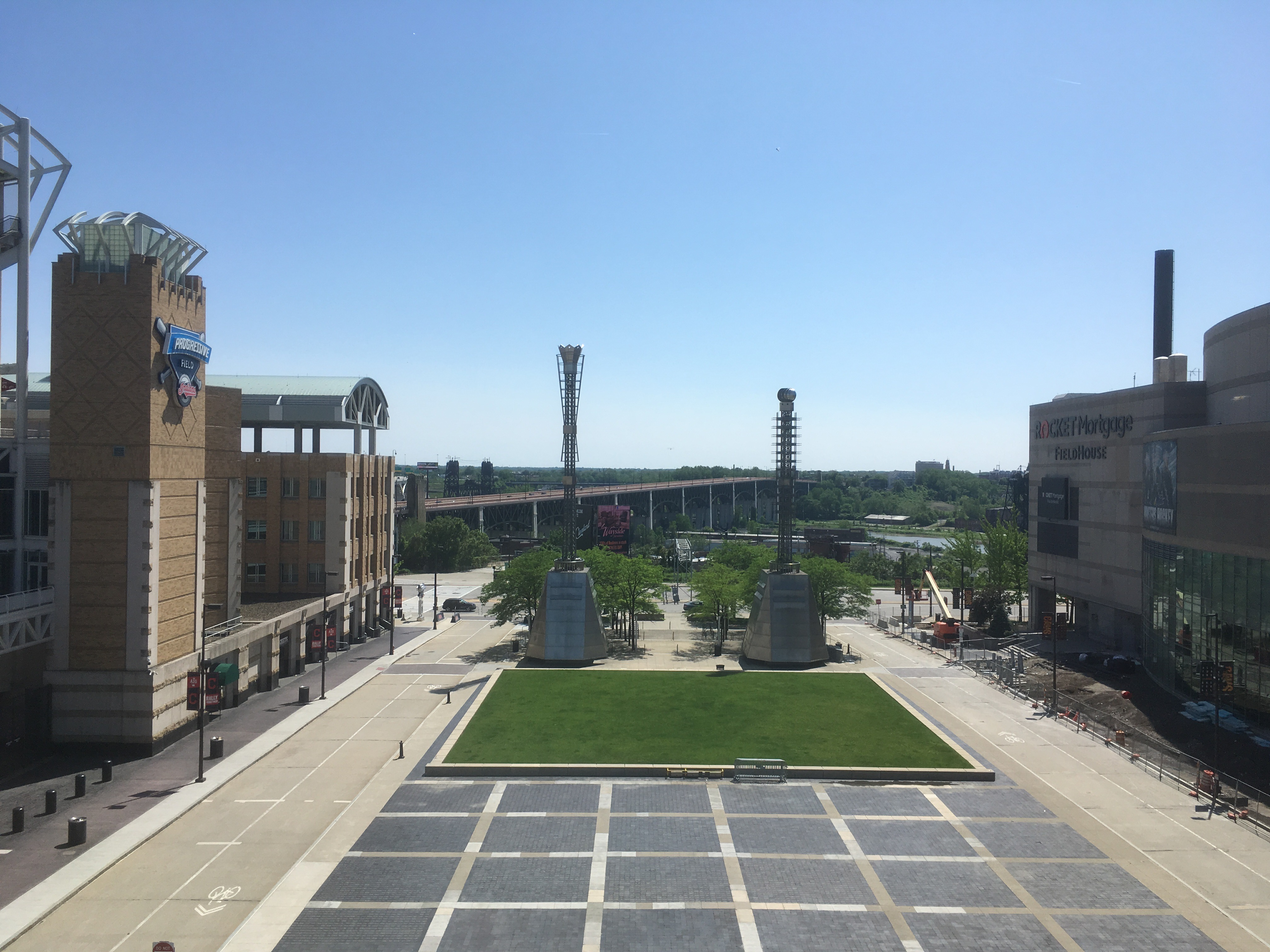 Gateway Sports and Entertainment Complex, Cleveland